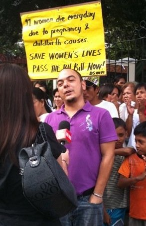 Cultural activist Carlos Celdran being interviewed by the press at a pro-Reproductive Health Bill rally in front of Philippine Congress on Commonwealth Avenue.